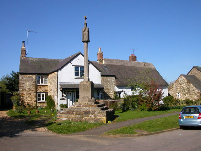 Culworth The War Memorial and The Old Village Shop.There is a "new" Village Shop close by and the old one is now converted to a house.